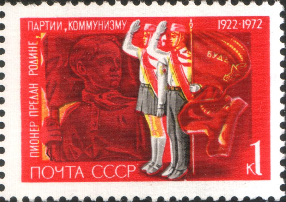 USSR stamp